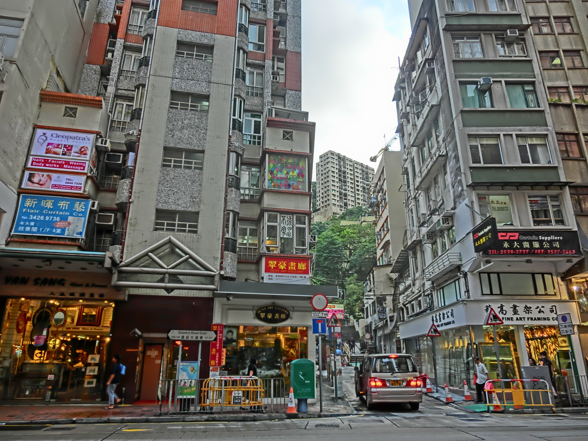 灣仔 皇后大道東, Ship Street, Queen's Road East, Wan Chai, Hong Kong